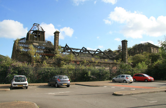 Remains of Yorkshire Imperial Metals Hafod Works, Landore